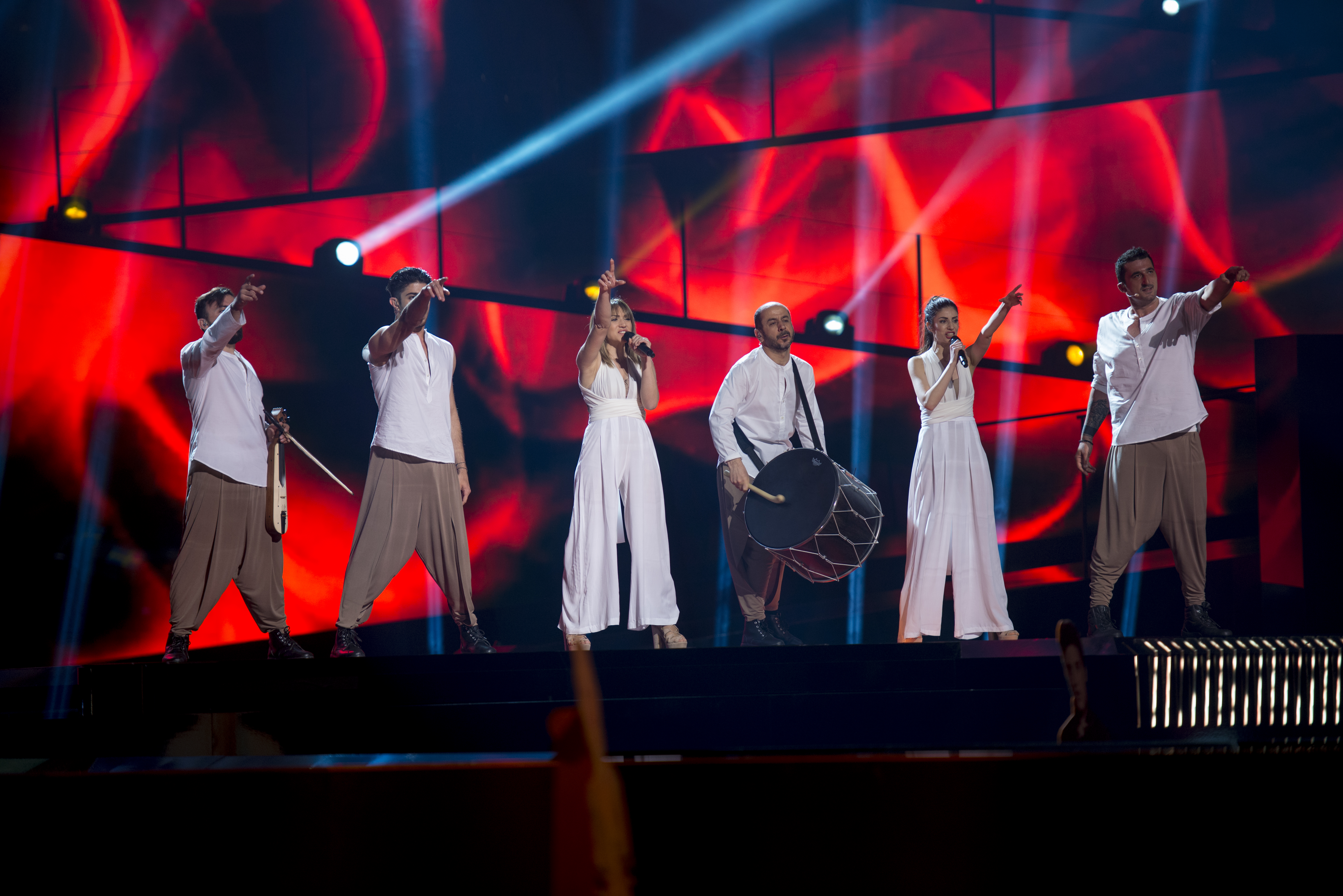 Argo representing Greece with the song "Utopian Land" during a rehearsal before the first semi final of the Eurovision Song Contest 2016 in Stockholm. (Help translate this text)